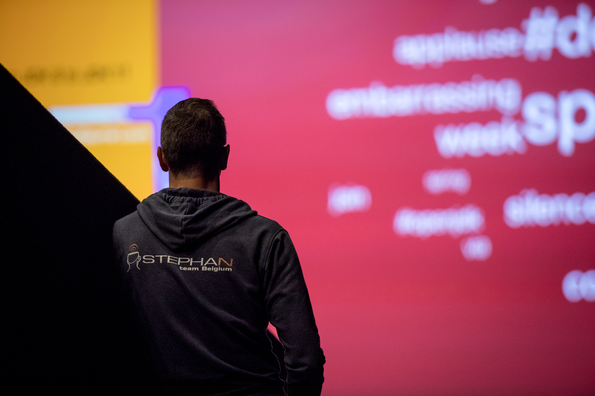 Stephan watching a talk from the corridor.